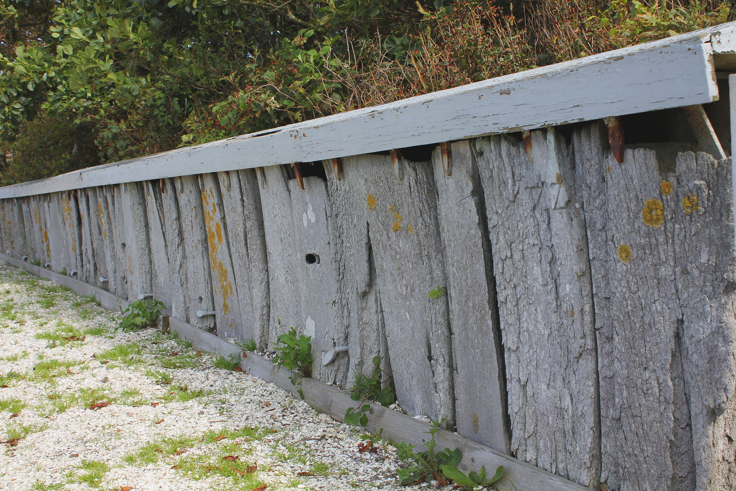 Fence made from baleen whale bones (lower jaw bones), a historical monument, seen in Toftum, Rømø Island, Denmark. The height is about 1 meter. Fences like this have been built because of a lack of wood on the island. This fence is the last one existing on Rømø Island. To protect from erosion, the fence is covered with a wooden lid.